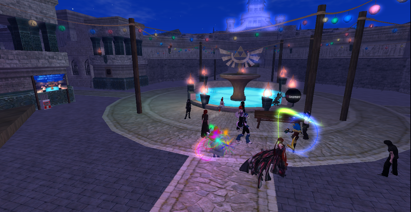 A party in Hyrule in Second Life. Hyrule is a fictional location in The Legend of Zelda.